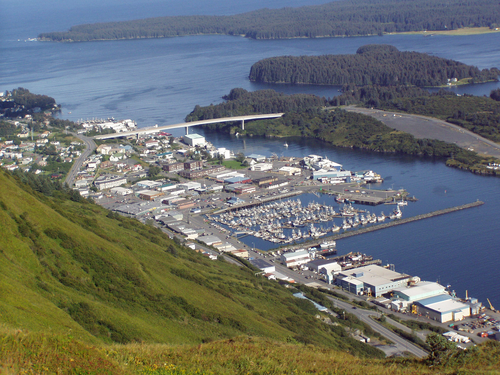 View from Pillar Mountain